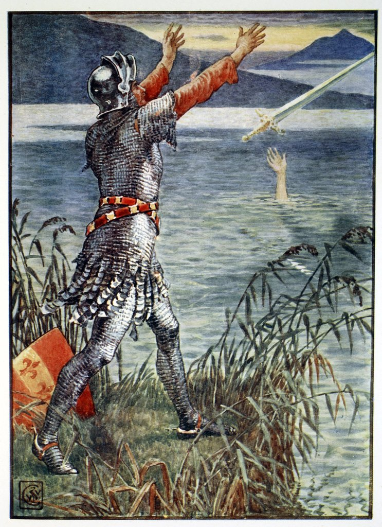 King Arthur Sir Bedivere throwing Excalibur into the lake. One of the Knights of the Round Table, Sir Bedivere, throws the sword Excalibur into the lake, where the arm of the Lady of the Lake reaches up to retrieve it. Caption reads, There came an arm and a hand above the water. WC: English artist and illustrator, b. August 15, 1845 March 14, 1915.